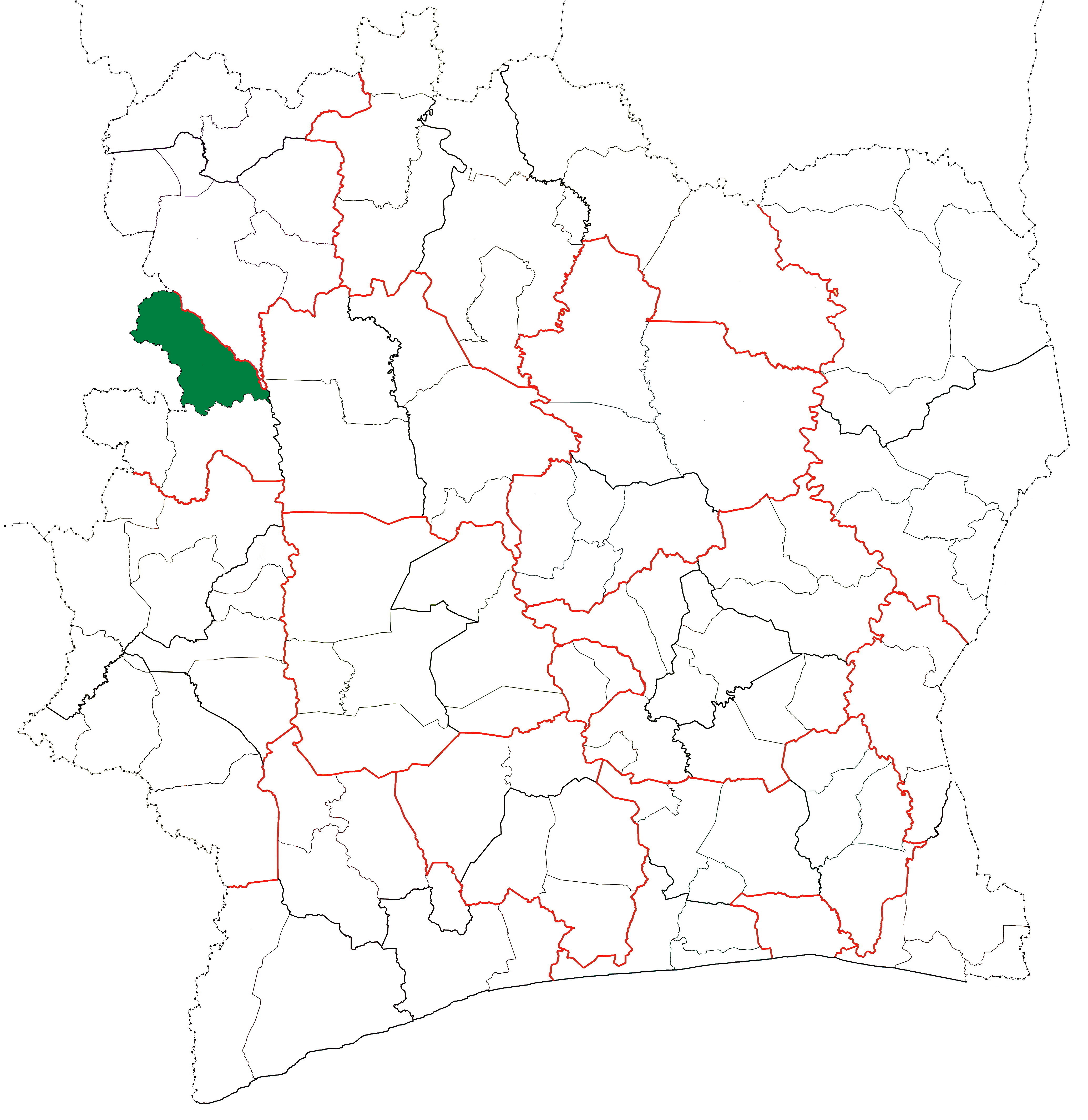 Locator map for Koro Department in Côte d'Ivoire.